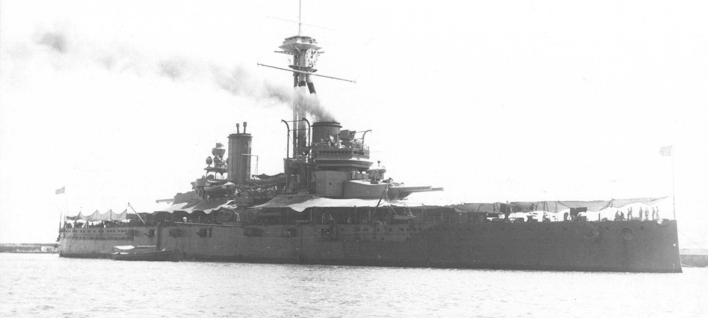 One of the two Minas Geraes-class battleships seen from the front starboard quarter. Note the prominent range clock atop the mast and the awnings shading the deck. The Brazilian Navy has uploaded two versions of the same photo, one identified as Minas Geraes and one as its sister São Paulo.